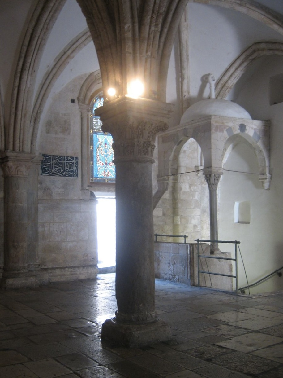 Room of the last supper